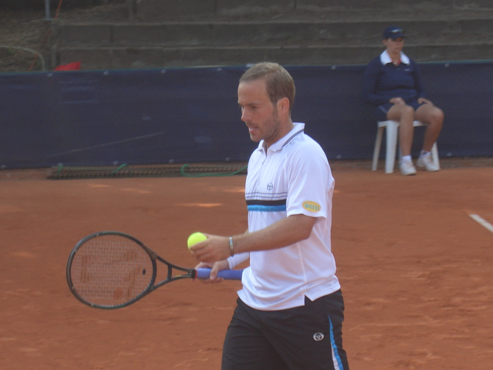 Olivier Rochus at the Hamburg Masters 2008